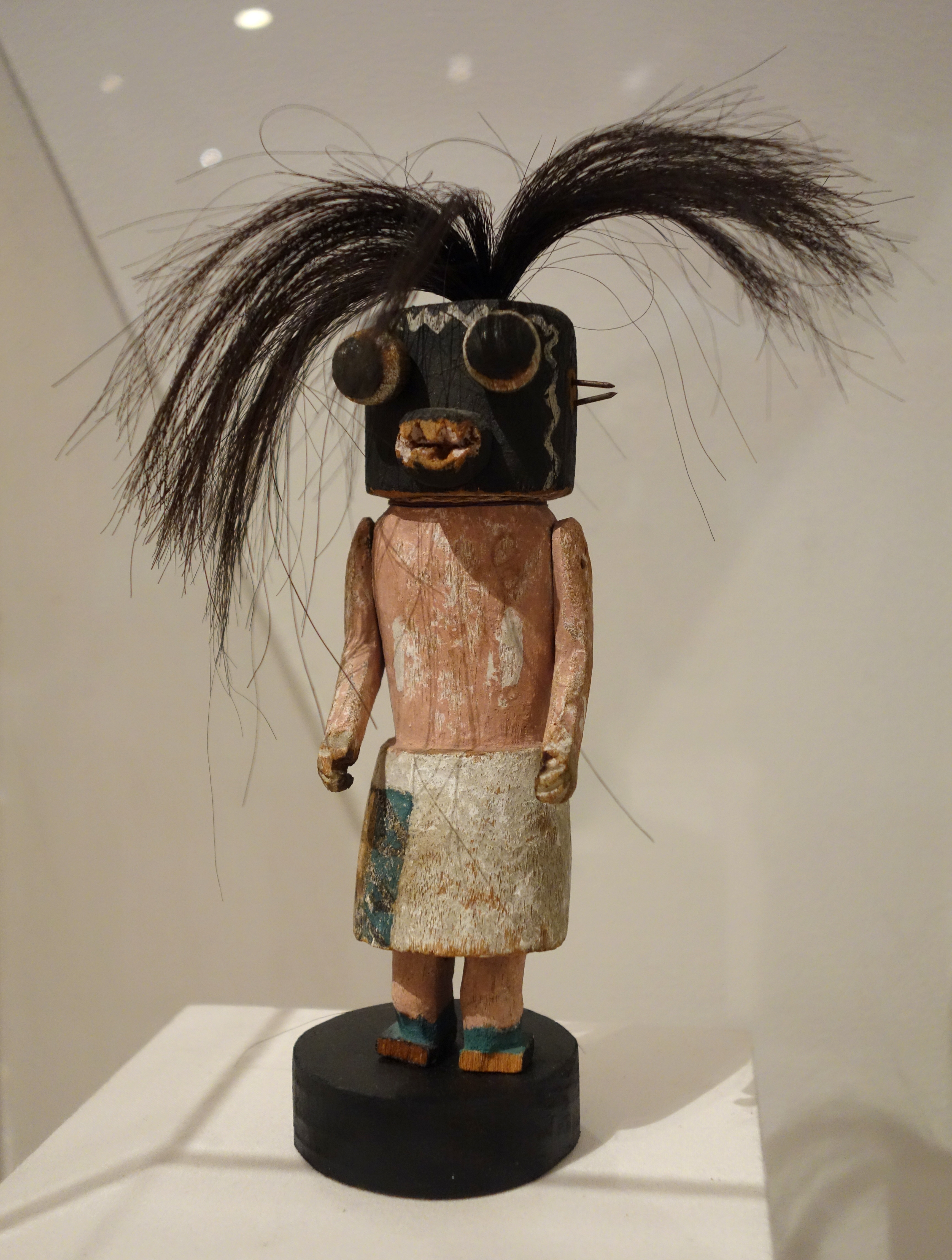 Exhibit in the Huntington Museum of Art, Huntington, West Virginia, USA. This artwork is in the public domain because the artist died more than 70 years ago.